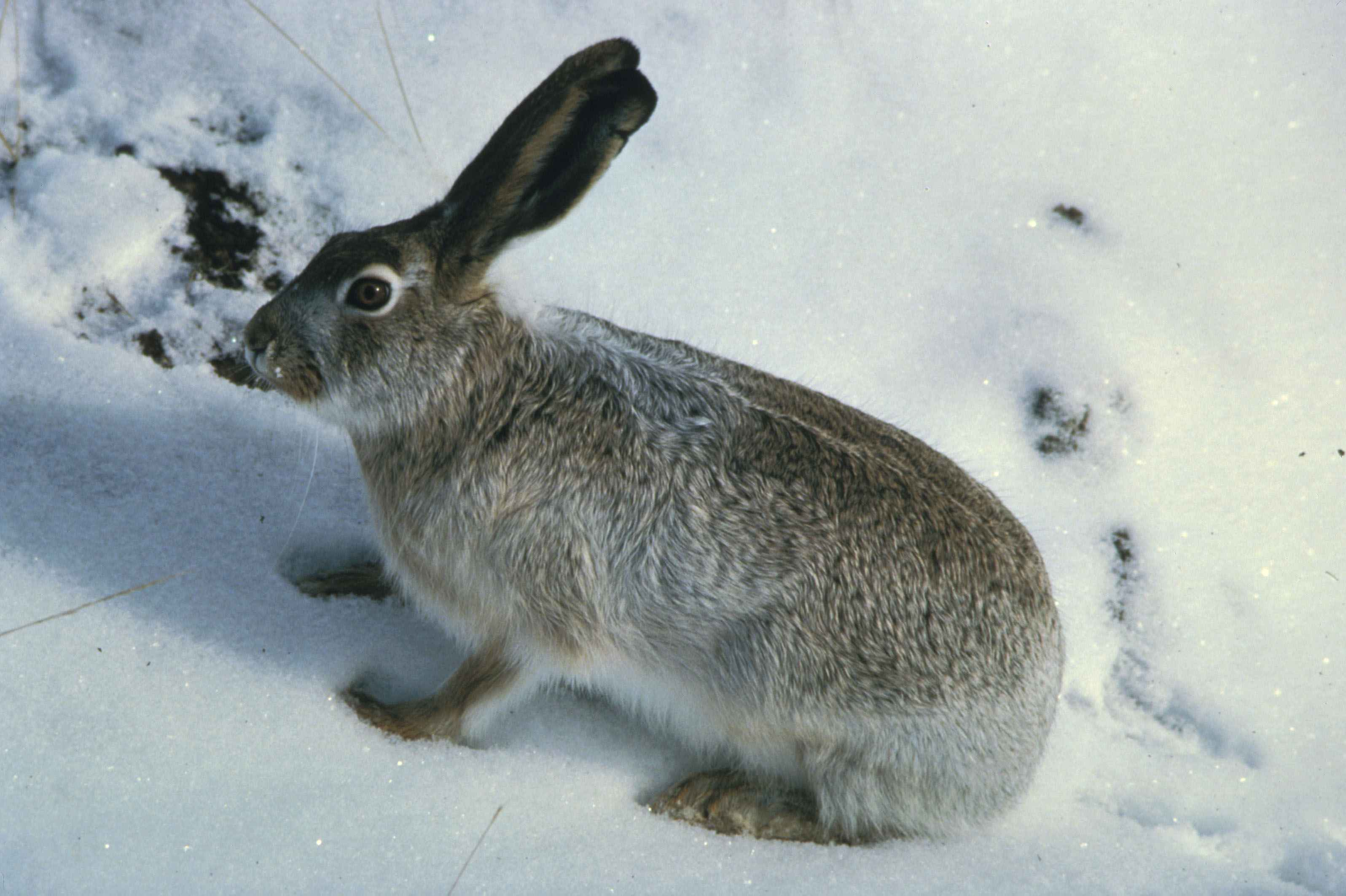 Image title: White tailed jackrabbit on snow Image from Public domain images website